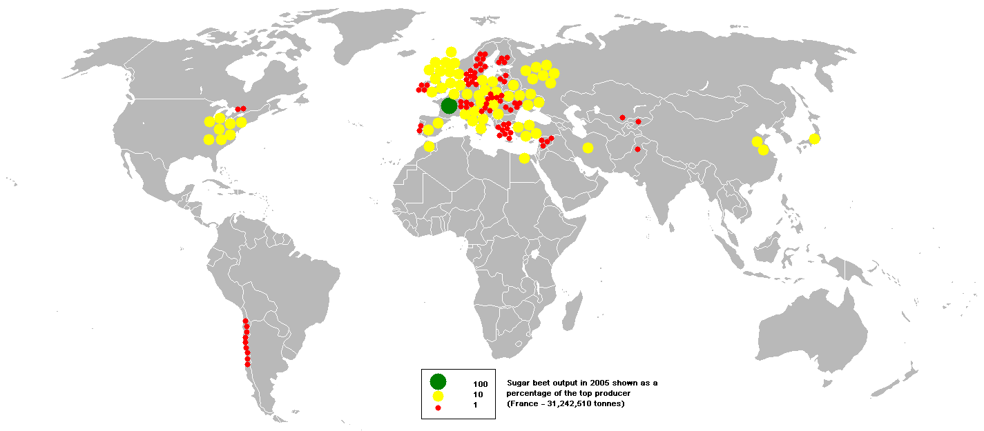 This bubble map shows the global distribution of sugar beet output in 2005 as a percentage of the top producer (France - 31,242,510 tonnes). This map is consistent with incomplete set of data too as long as the top producer is known. It resolves the accessibility issues faced by colour-coded maps that may not be properly rendered in old computer screens. Data was extracted on 18th June 2007 from Based on :Image:BlankMap-World.png